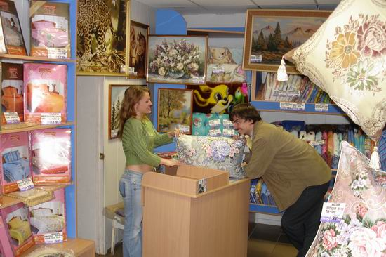 seller, shop assistant (Russia)